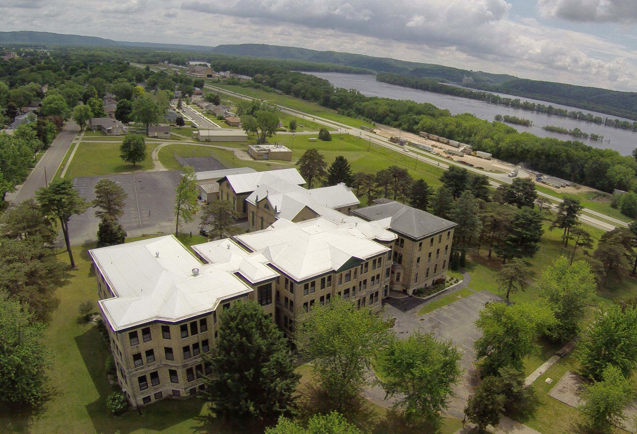 Wyalusing Academy was the former St Mary’s College, and Saint Mary’s School in Prairie du Chien, Wisconsin. Saint Mary’s Academy. It was started by the School Sisters of Norte Dame.